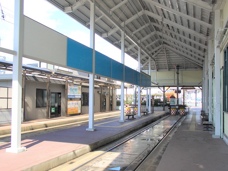 Kumamoto City Tram Kami-Kumamoto tram stop platforms, Kumamoto, Kumamoto, Japan